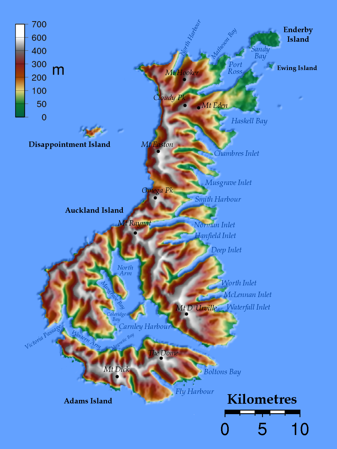 Topographic map of the Auckland Islands